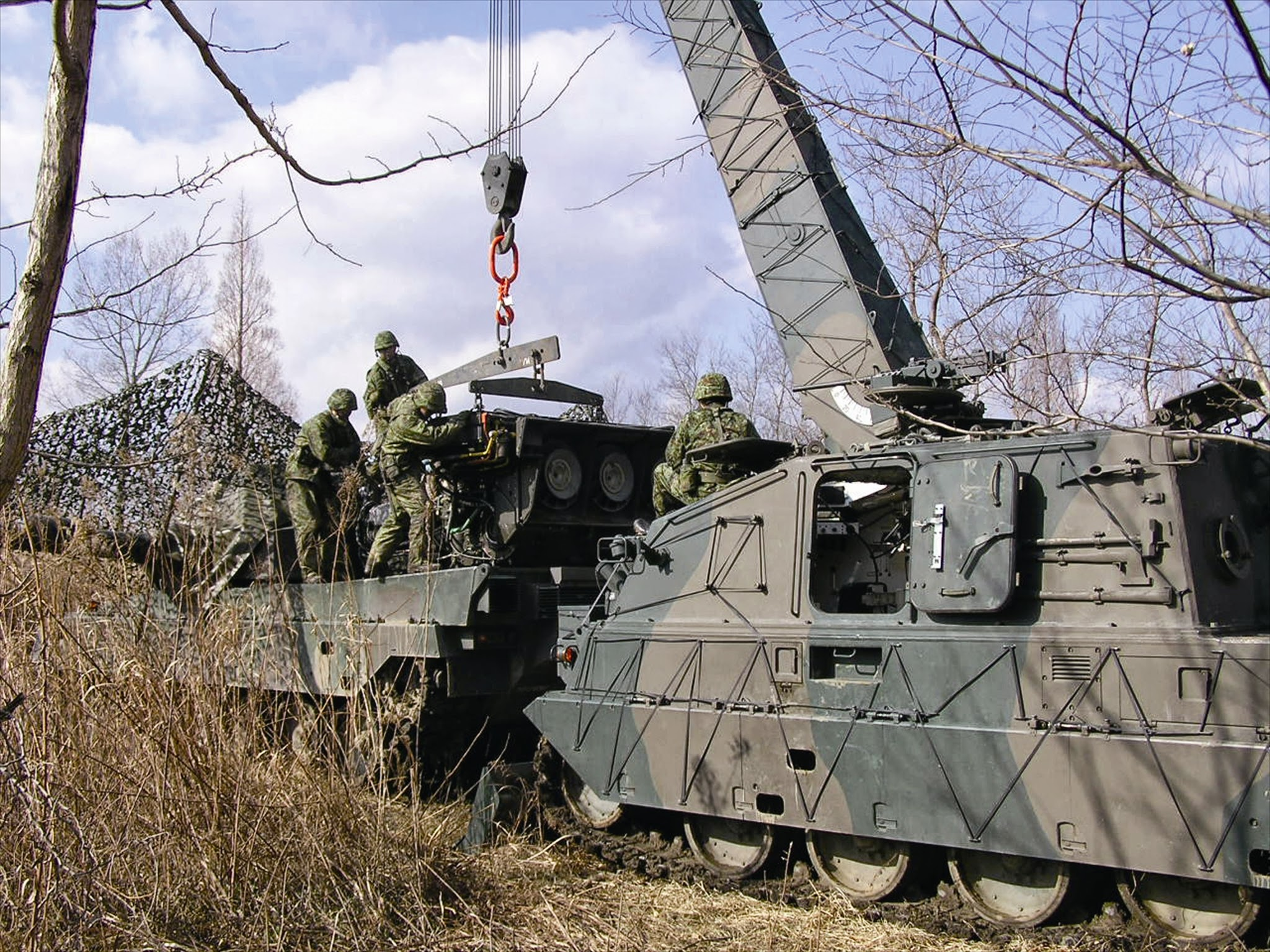 Title ９０式戦車回収車P21職種 武器科.jpg Album 装備 ９０式戦車回収車